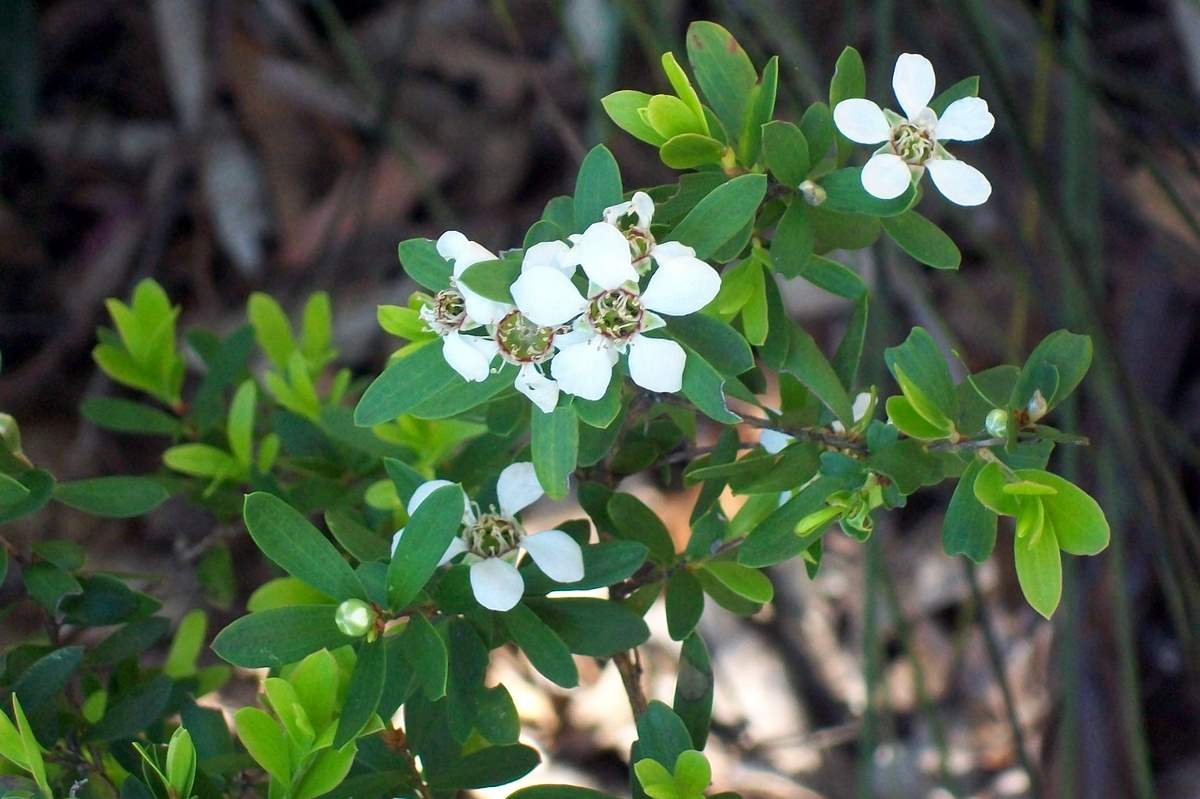 Tea Tree, Bairne Track, Ku-ring-gai Chase National Park, Australia. Likely to be Leptospermum grandifolium, (flowers forming singly), leaves glossier than Leptospermum laevigatum, growing at 150 metres above sea level.